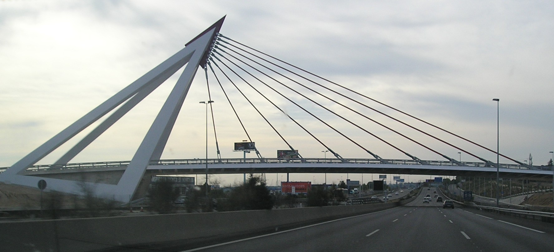 Las Rozas Bridge (Community of Madrid, Spain).